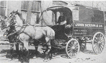 John Sexton & Co wagon, team and driver. Chicago, IL 1890